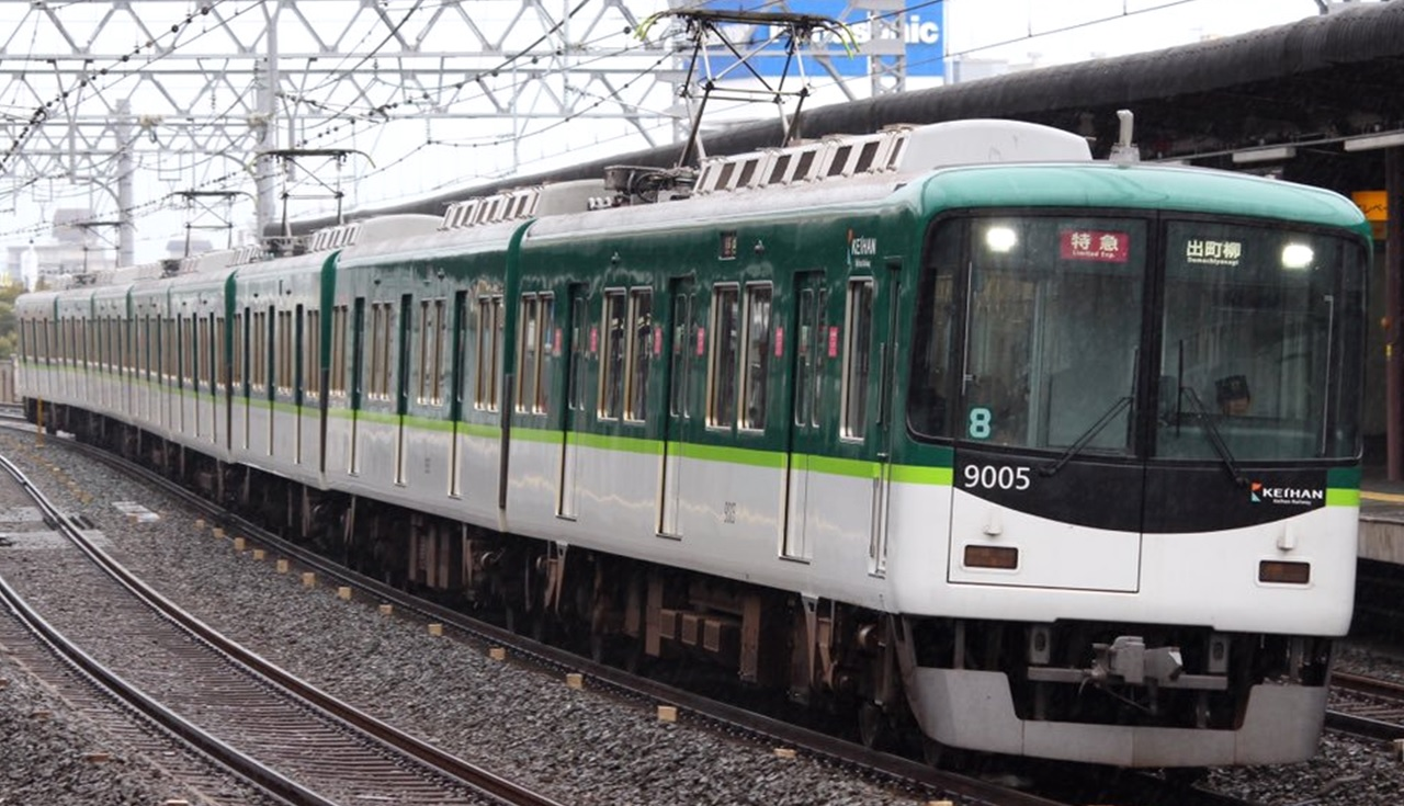 Keihan Electric Railway 9000 series EMU set 9005 passing through Nishisanso Station in Osaka Prefecture, Japan